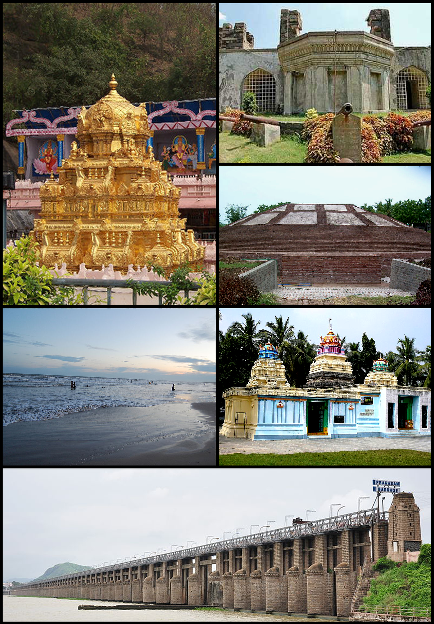 Montage of Krishna District with Images from wikimedia commons